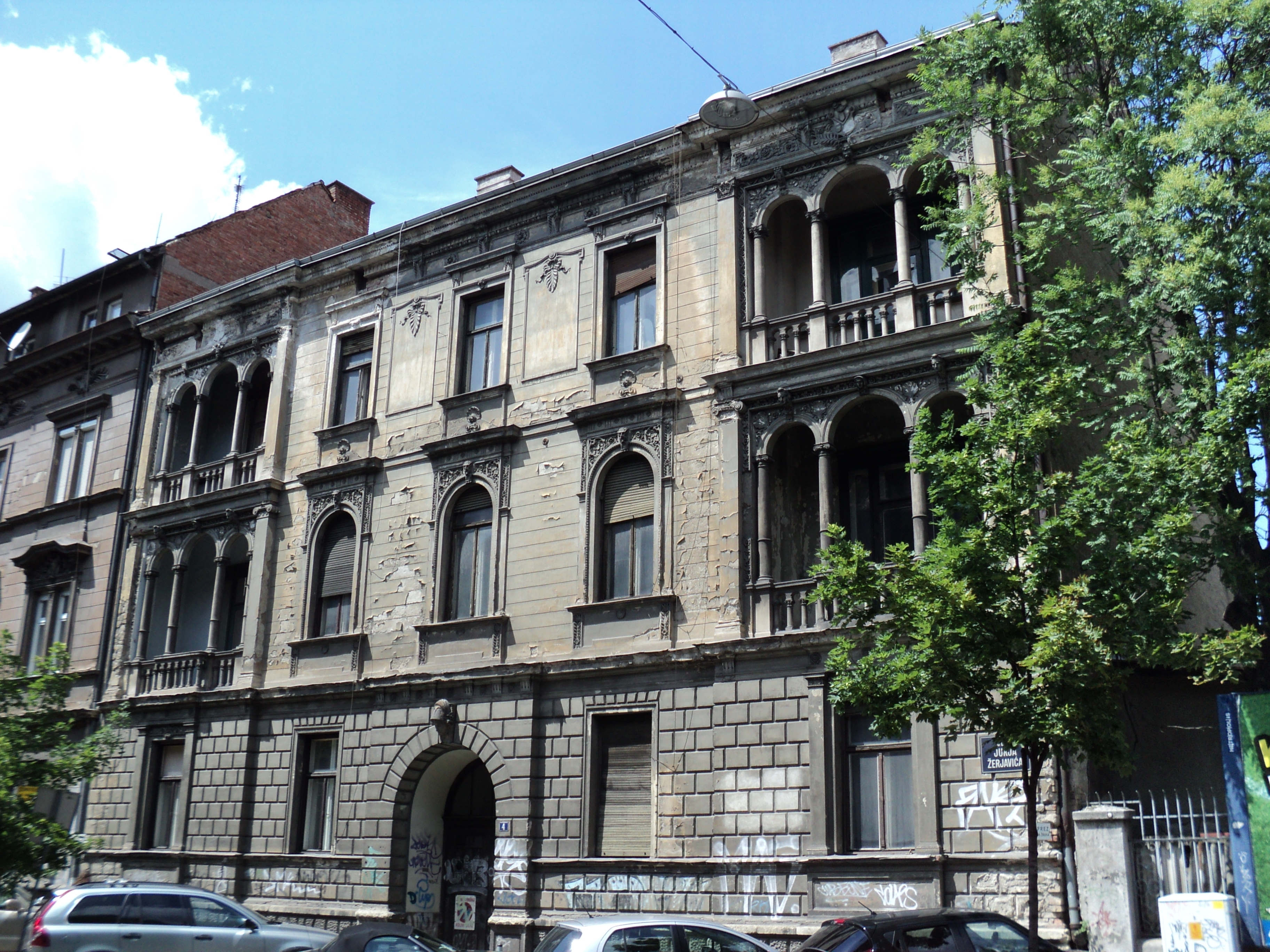 Building in Žerjavićeva street 4, Zagreb. Birth house of Ivo Lola Ribar, the People's hero of Yugoslavia.